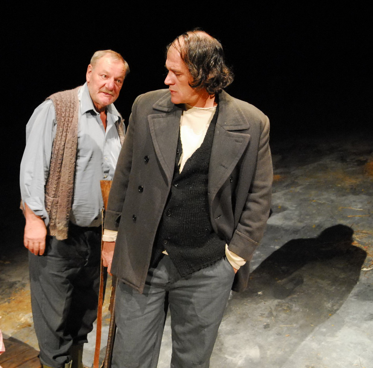 "Vivarium" by Dušan Spasojević, directed by Boris Liješević; Drama of SNT, Novi Sad, 2007/08; actors: Novak Bilbija, Boris Isaković Srpski (latinica): "Zverinjak" Dušana Spasojevića u režiji Borisa Liješevića; Drama SNP-a, Novi Sad, 2007/08; glumci: Novak Bilbija, Boris Isaković Српски (ћирилица): "Зверињак" Душана Спасојевића у режији Бориса Лијешевића; Драма СНП-а, Нови Сад, 2007/08; глумци: Новак Билбија, Борис Исаковић